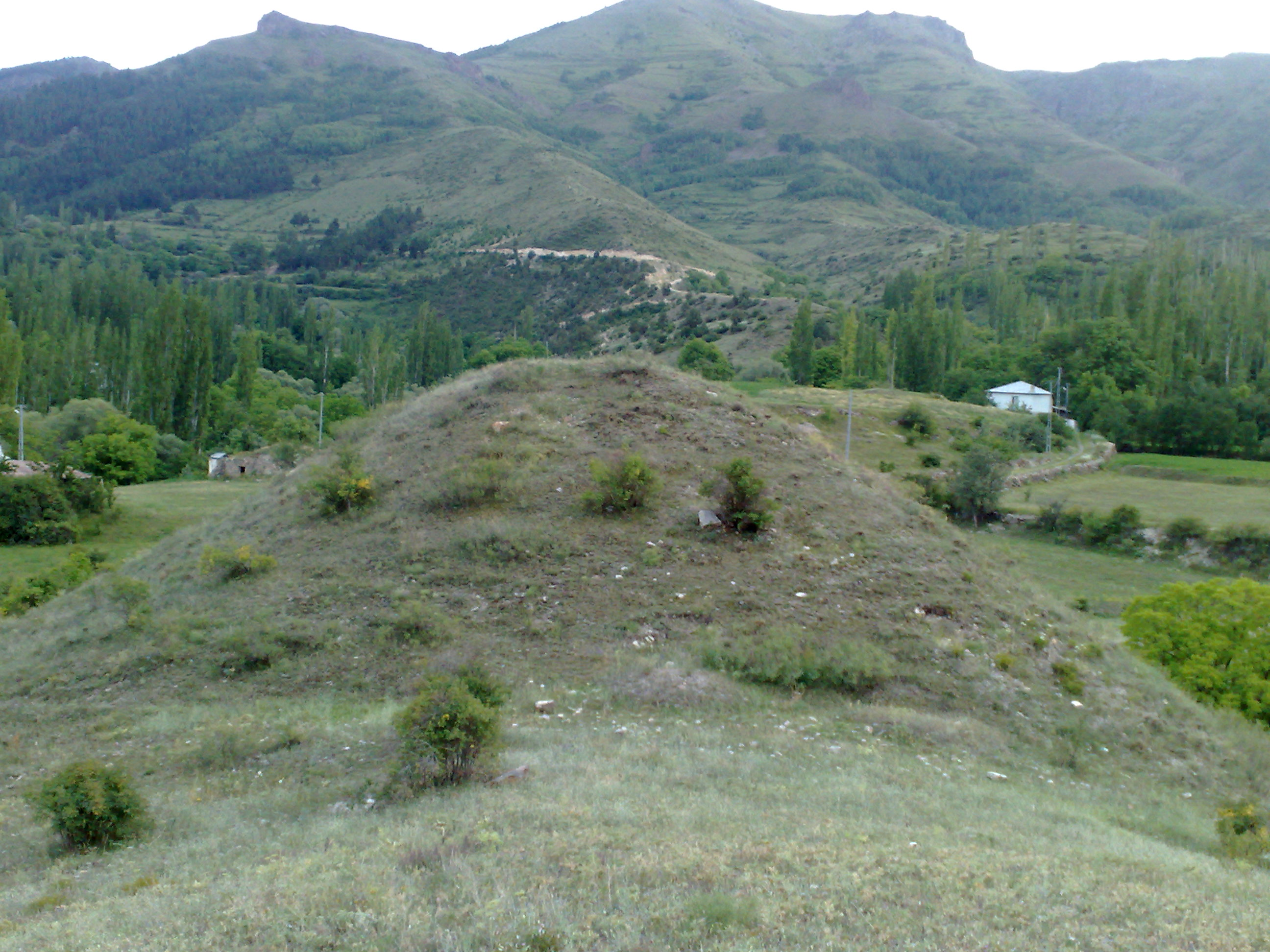 Gugullar mound, Neolithic period, (Serdarlı -Tortum -Erzurum -Turkey